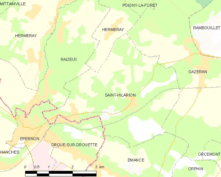 Map of French municipality Saint-Hilarion